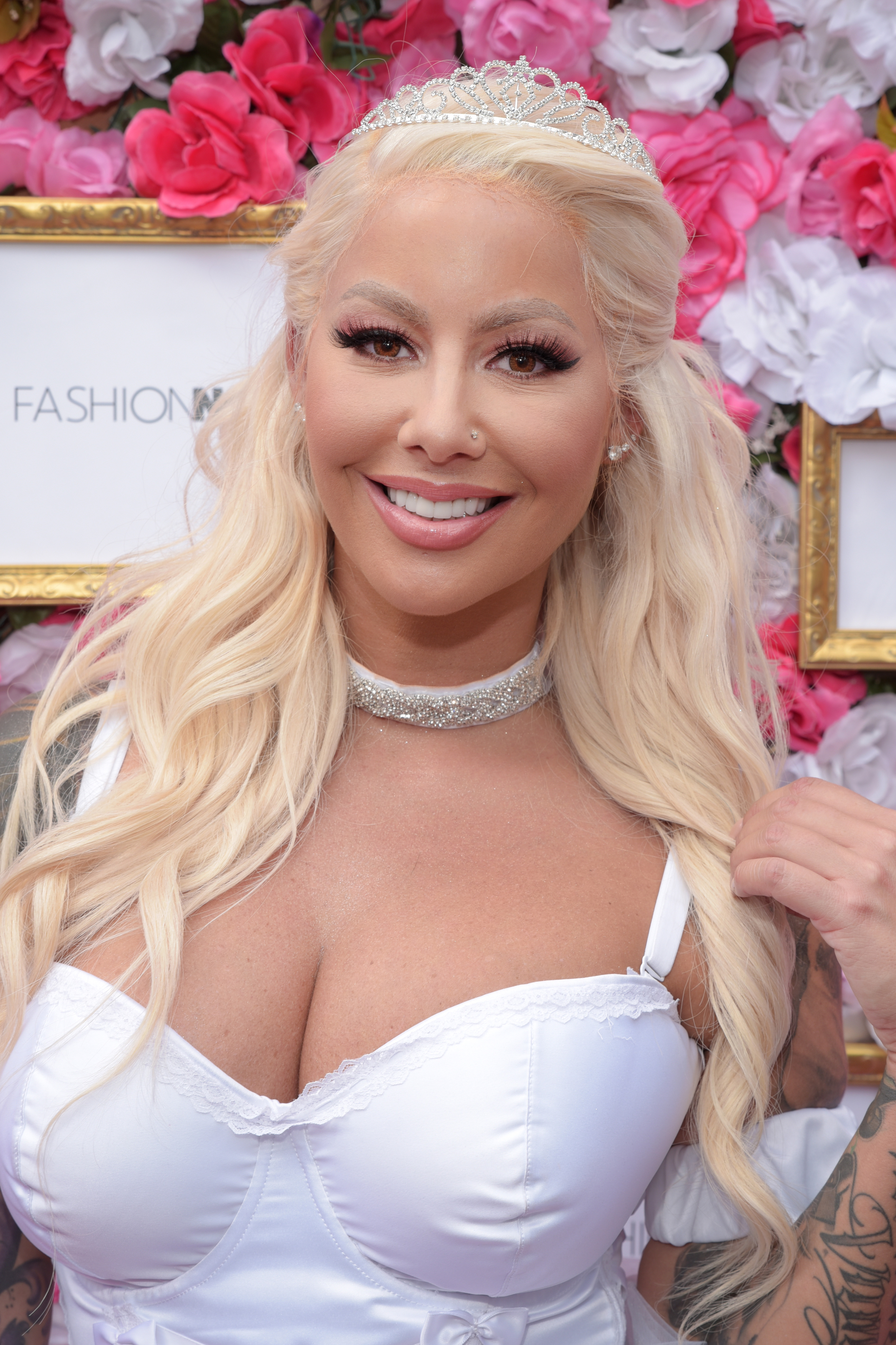 Amber Rose at the "Amber Rose Slutwalk" on October 6, 2018 - Photo by Glenn Francis of